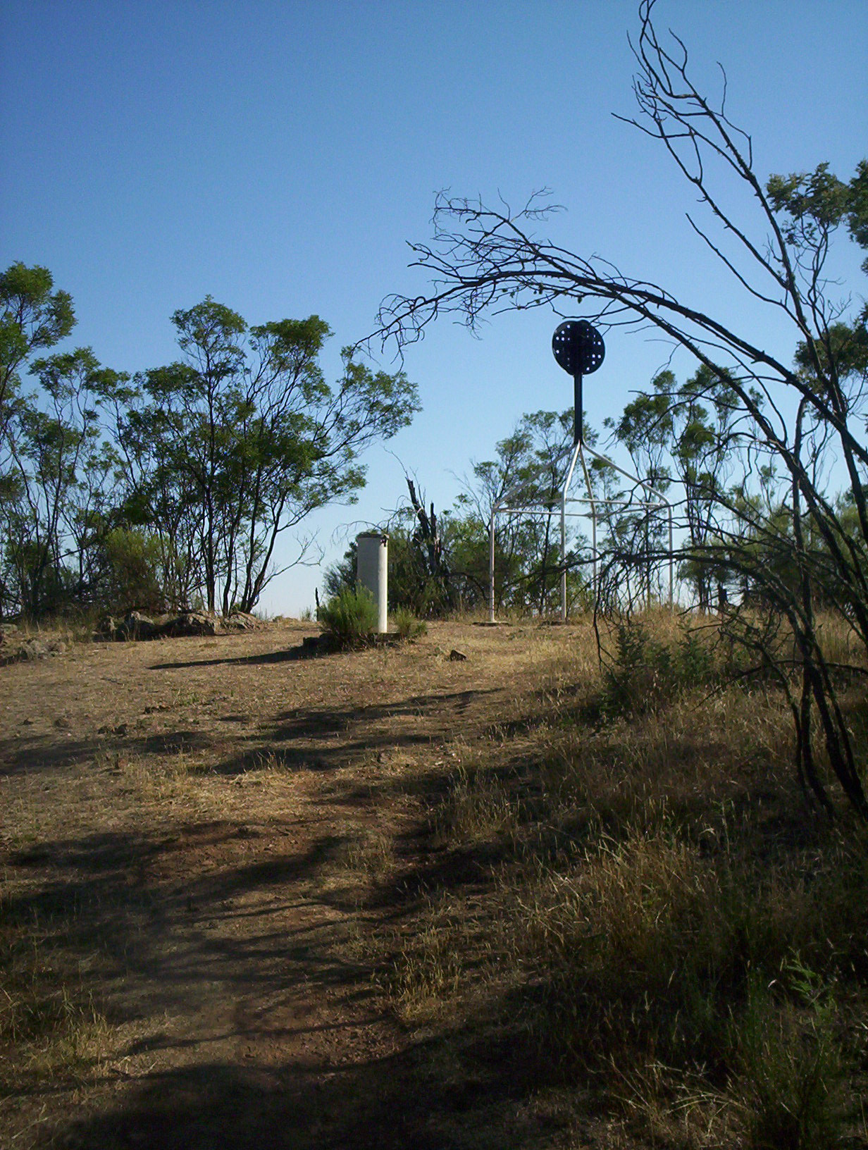 Top of Mt. Majura, Canberra. I took the photo Cfitzart 01:48, 25 August 2005 (UTC)